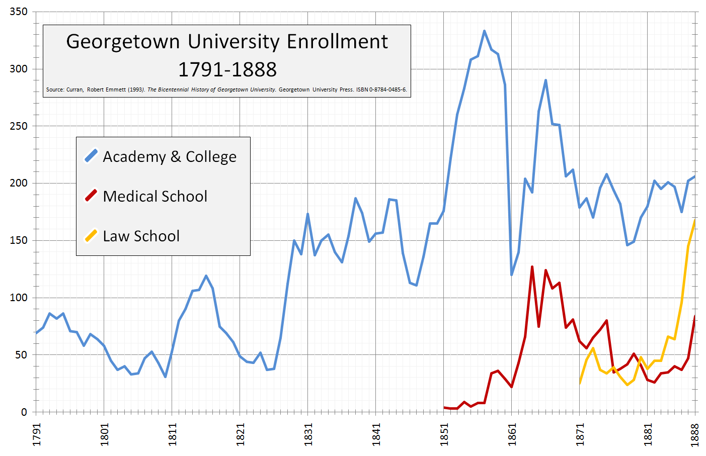 Graph of the first century of Georgetown University student enrollment, between the Academy and College, the Medical Department, and the Law Department. The Medical Department was later renamed the School of Medicine and the Law Department is currently Georgetown University Law Center. Made with Microsoft Excel. Data from Curran, Robert Emmett (1993). The Bicentennial History of Georgetown University. Georgetown University Press. ISBN 0-8784-0485-6. Academy & College Medical School Law School